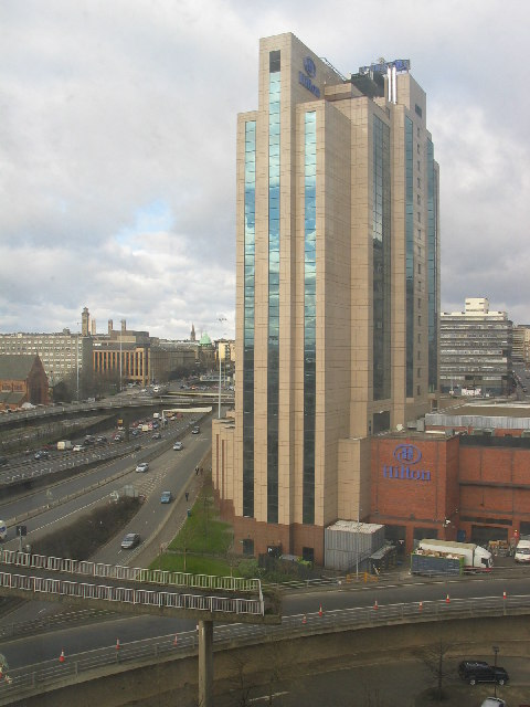 Glasgow Hilton Hotel and M8 motorway to left.